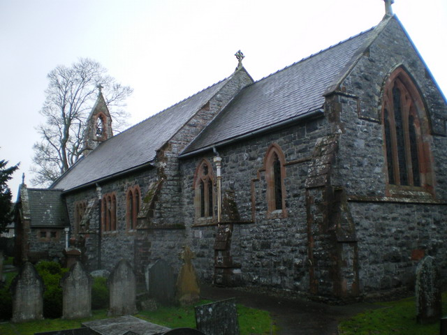 St Erfyl's church, Llanerfyl Not an easy subject to photograph, due to the nature of the churchyard, and the rather restricted access around the outside of the building.